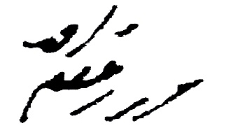 Signature of Hadhrat Mirza Ghulam Ahmad